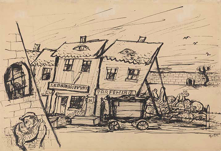 Art work from the Theresienstadt ghetto